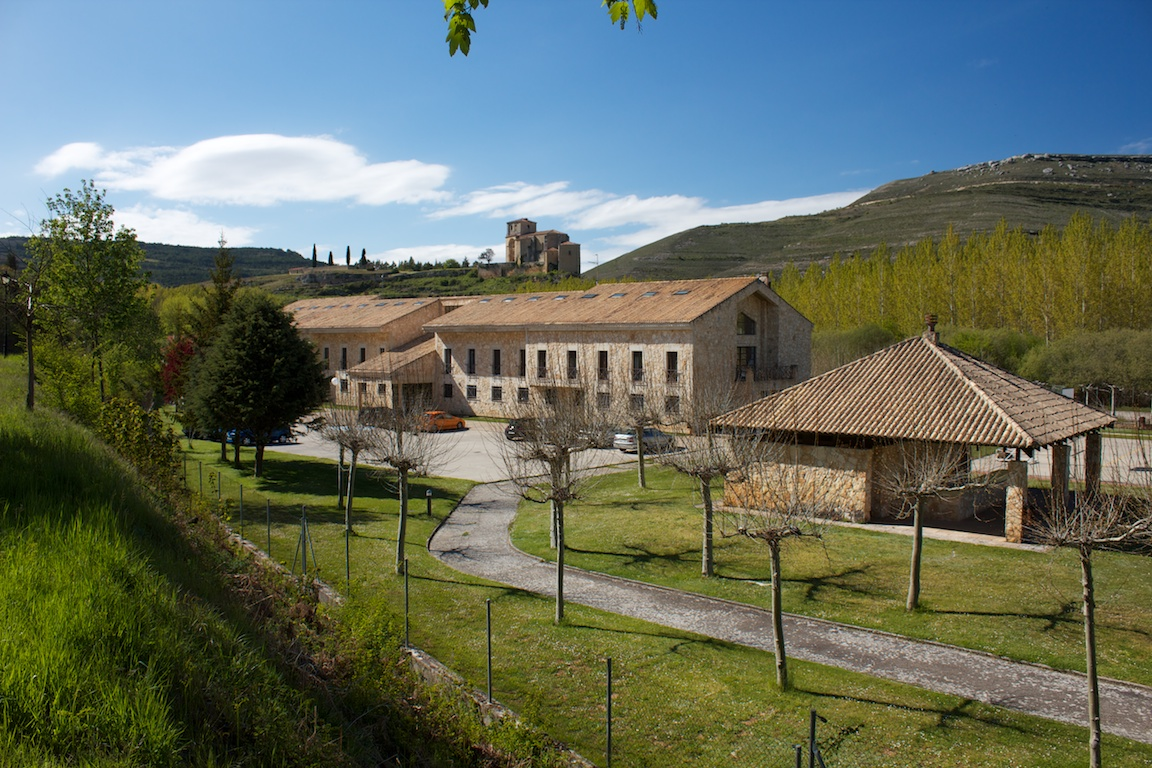 Universidad de Burgos, Complejo Residencial Miguel Delibes en Sedano